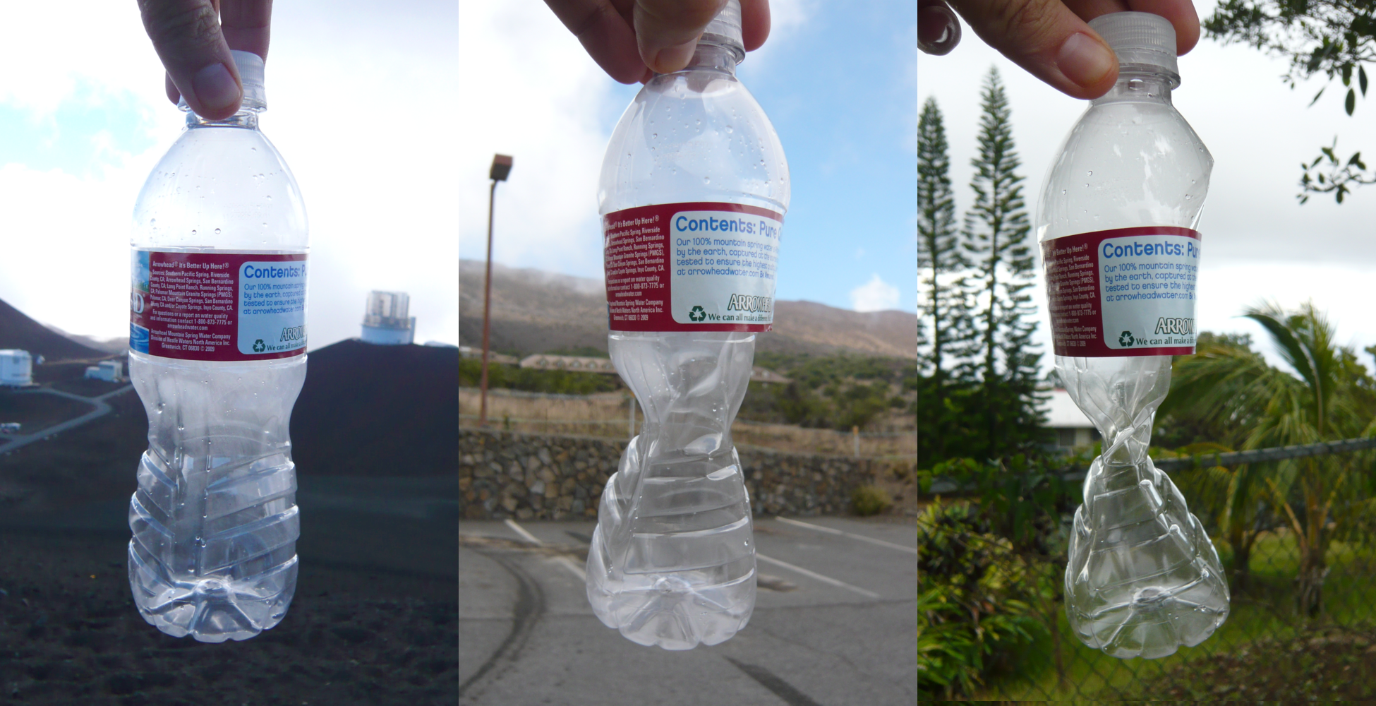 Plastic bottle sealed at 14,000 feet (4267 m) on Mauna Kea observatory on the island of Hawaii, taken down to 9000 feet (2743 m) and then 1000 feet (305 m), where the change in air pressure had crushed it.